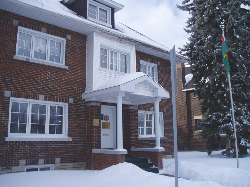 Embassy of Burkino Faso, Ottawa, Canada